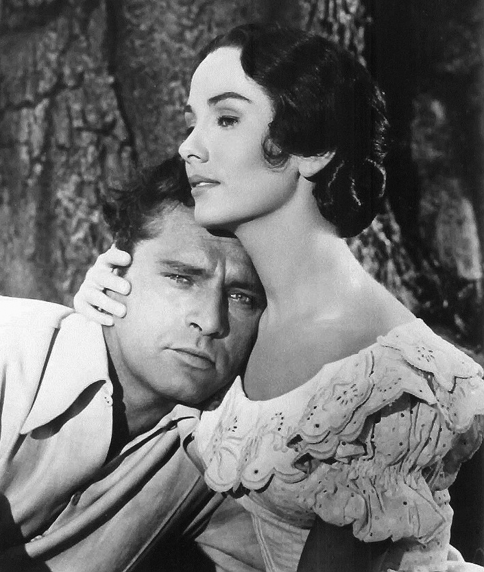 Photo of Richard Burton and Maggie McNamara from Prince of Players Photo published by The Indiana Gazette. Note that the uploaded photo is larger and of better quality than the newspaper photo. A search was done for renewal at using the newspaper's title. There were no listings for the title; there's no evidence of renewal for this newspaper.